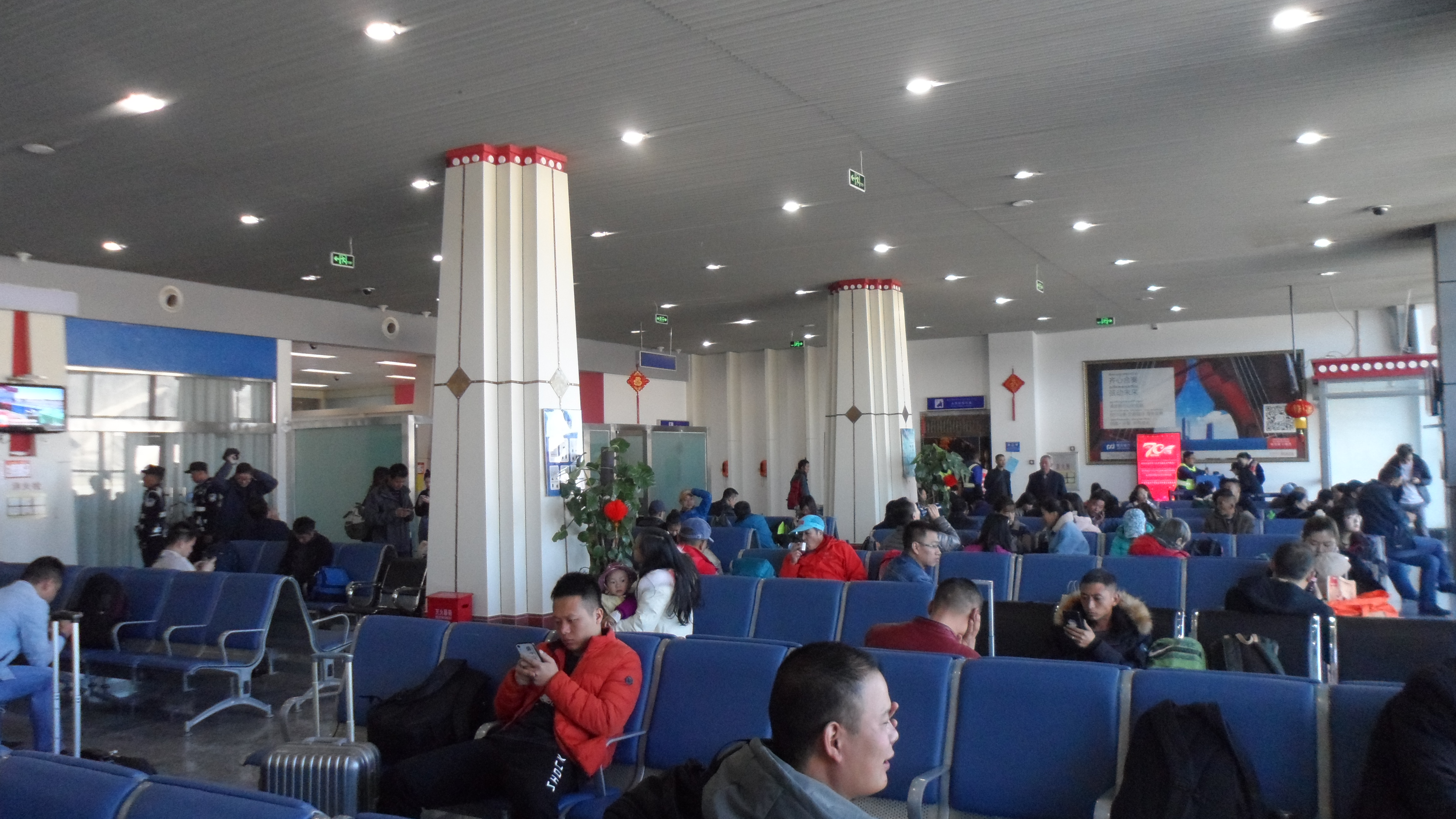 Shigatse Peace Airport